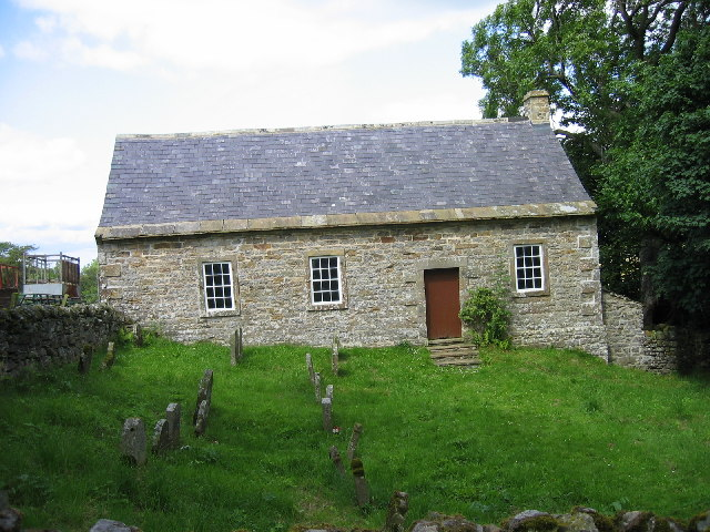 Friends Meeting House, Coanwood near Haltwhistle. Of the many 18th-century Meeting Houses which survive in Northumberland only that at Coanwood has been spared major alteration since its construction in 1760. The date is carved on the lintel above the entrance. The walls of the Meeting House are built of squared stone with rusticated quoins. Two windows with plain stone surrounds light the principal meeting room. A third is set in the rear wall. The simple wooden benches inside are a rare survival of the historic Quaker layout. A panelled partition with hinged shutters sub-divides the interior to the right of the entrance. The smaller room has a fireplace and iron hob grate. In the burial ground are typically Quaker small gravestones, commemorating the Wigham family which founded the meeting.